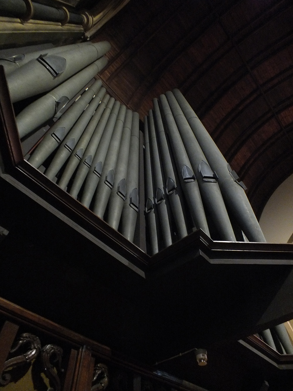 Organ pipes in the north transept of St. Peter's church, Bournemouth